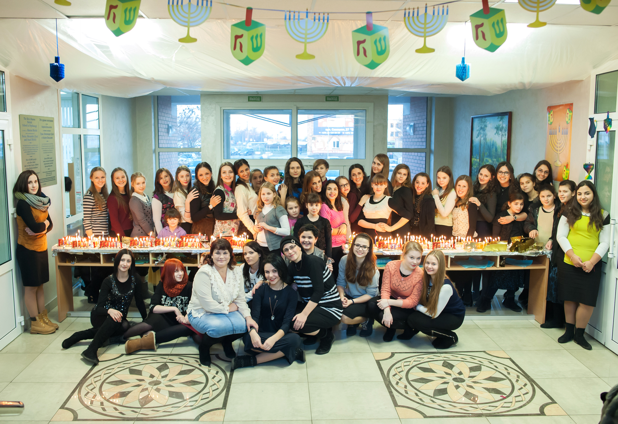 Students in Beish Aharon Girls school celebrate Hanukkah.